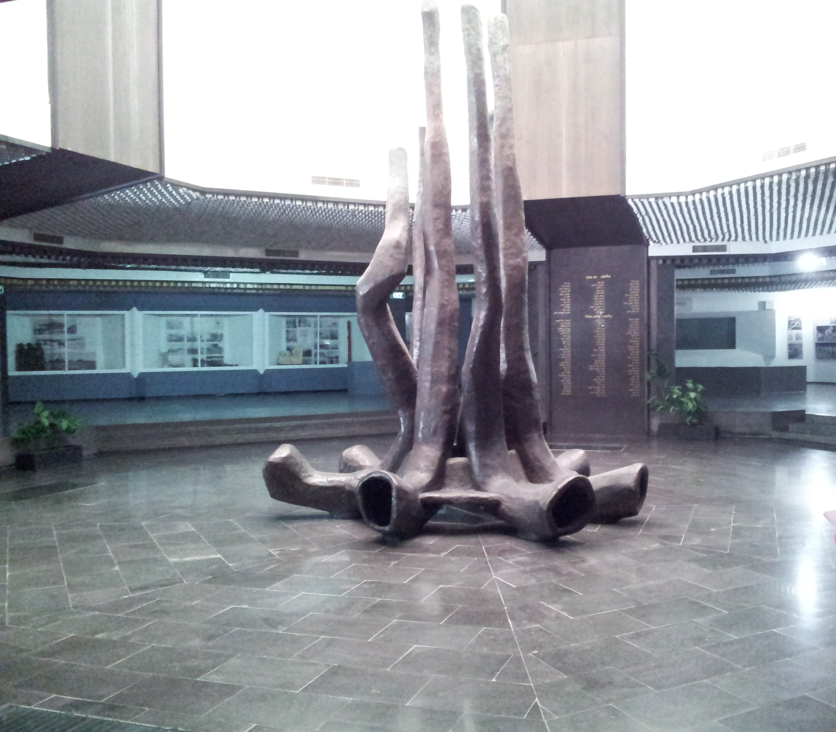 Ground floor of Yad Lebanim